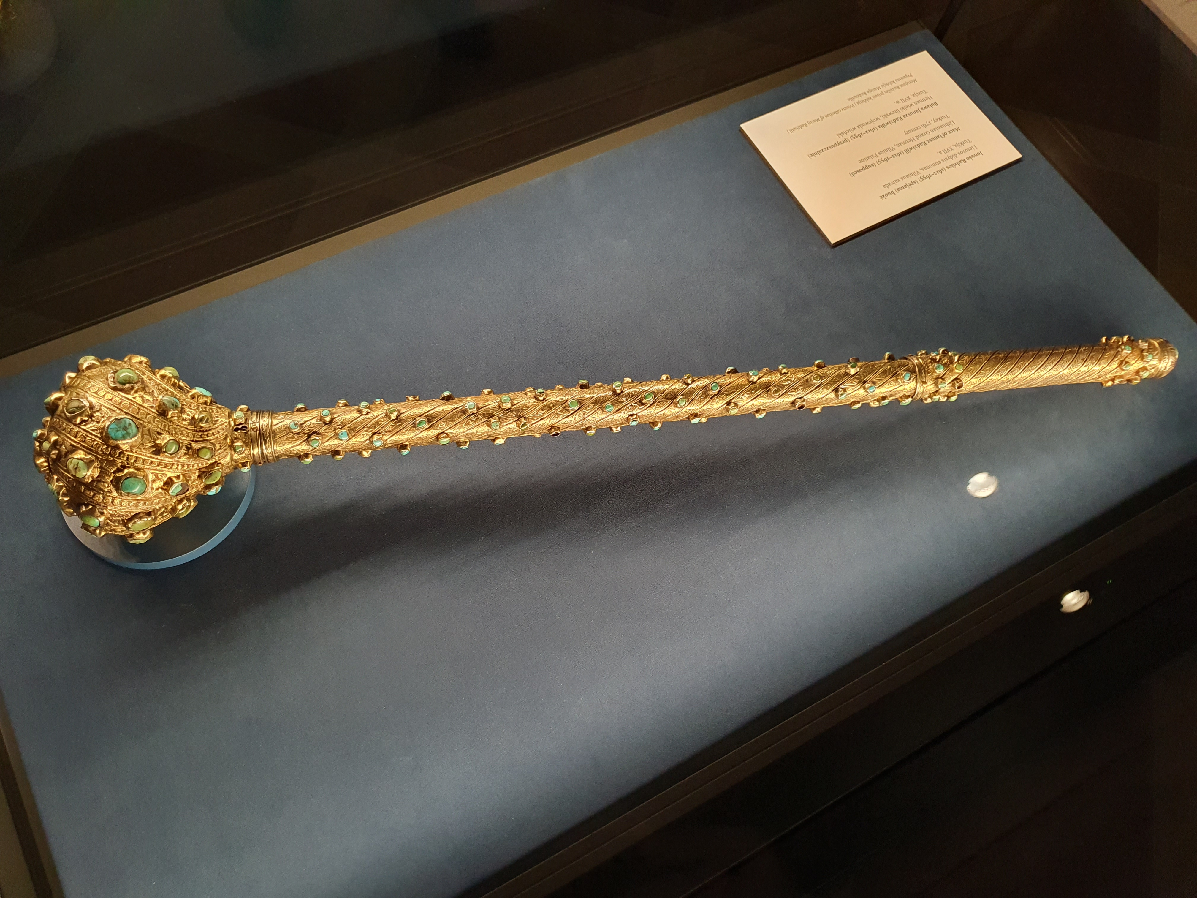 A 17th century mace of Janusz Radziwiłł, who was a Lithuanian Grand Hetman and Voivode of Vilnius. The mace belongs to a private collection of Maciej Radziwiłł and was photographed during an exhibition at the Palace of the Grand Dukes of Lithuania.